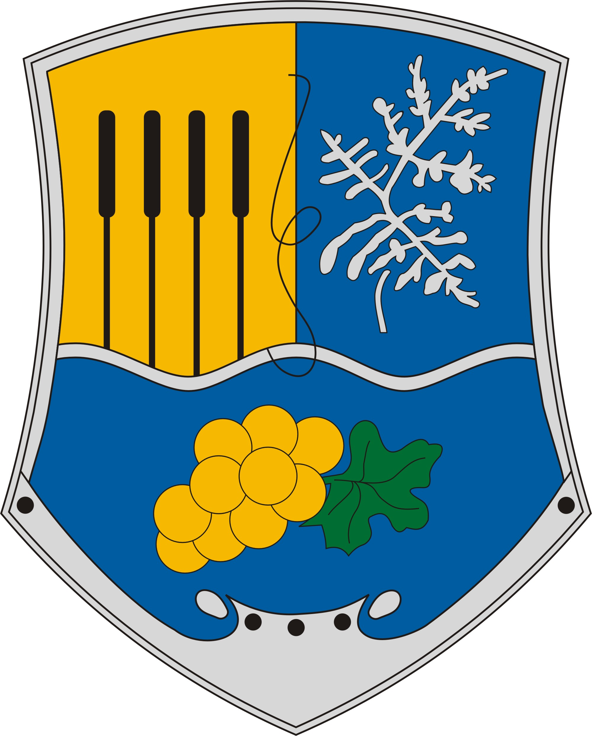 Coat of arms of Kunfehértó, Hungary